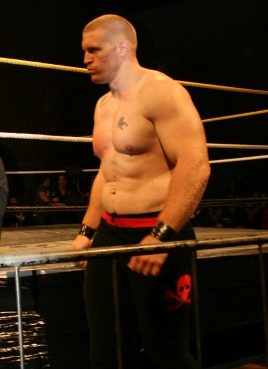 Reuben de Jong at IPW Rival Turf, 21 August 2010. Location: Westlake Boys High School, Forrest Hill, Auckland, New Zealand